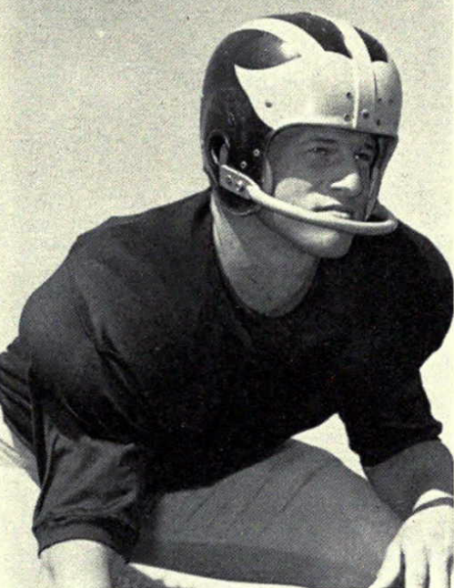 Photograph of George Genyk